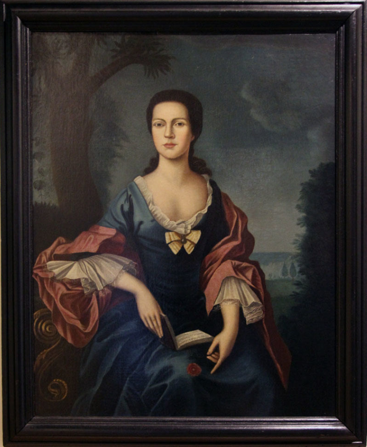 Maker Benjamin West (American-born painter, 1738-1820) Date Made c. 1755 Medium and Materials oil on canvas Place Made United States of America Place Notes most likely, Lancaster County, Pennsylvania Measurements image: 42 x 33 1/2 inches frame: 49 x 40 inches Collection George Ross Credit Line Gift of Elizabeth Spencer Eshleman in memory of her husband, George Ross Eshleman Object Type painting Object number 2495